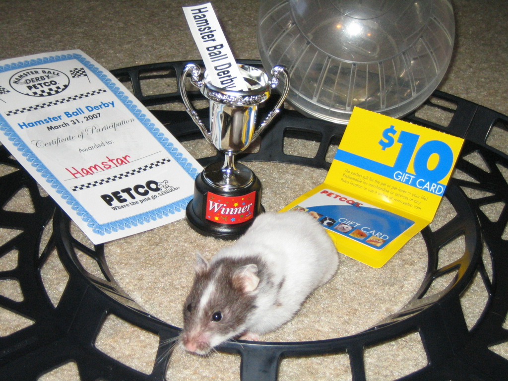 "Ham*Star," the winner of the March 2007 Petco Hamster Ball Derby held near the Petco Corporate Headquarters in San Diego, amidst her prizes.